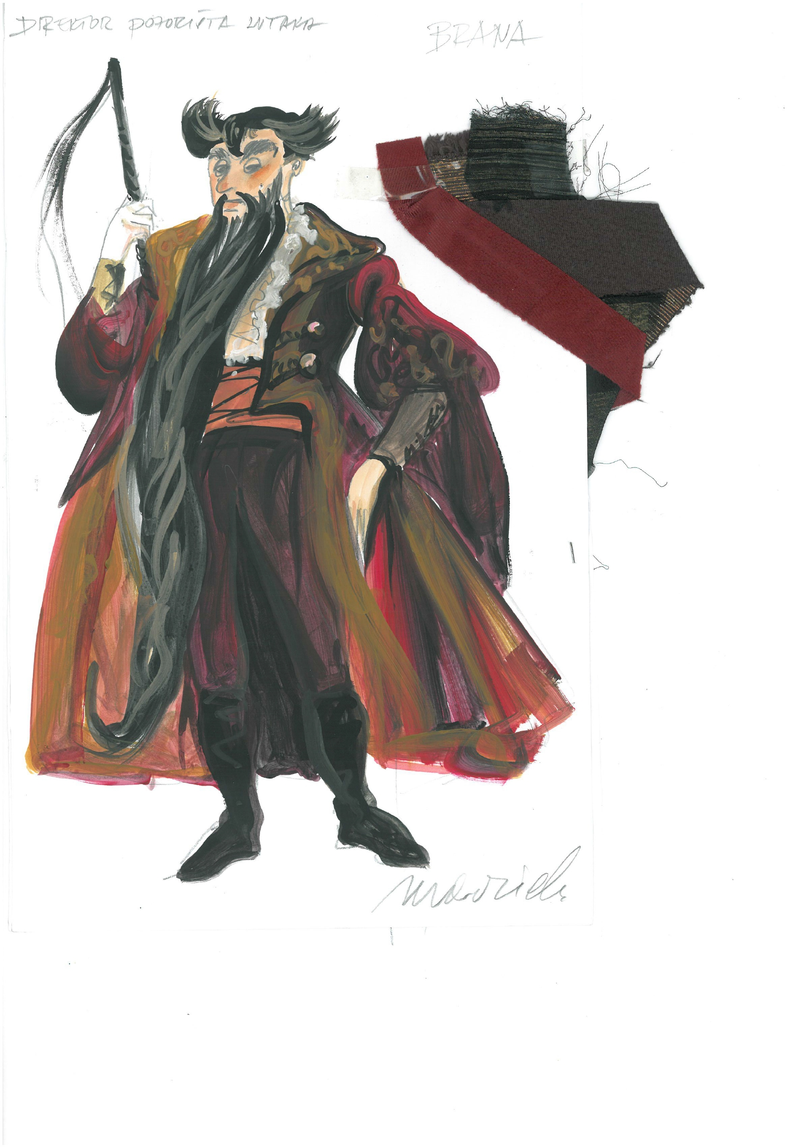 Costume sketch of Mirjana Stojanović Maurič for ballet Pinocchio, the First performance, Serbian National Theatre, Novi Sad, 2018 Srpski (latinica): Kostimografska skica Mirjane Stojanović Maurič za balet Pinokio, praizvedba Srpsko narodno pozorište, Novi Sad, 2018. Српски (ћирилица): Костимографска скица Мирјане Стојановић Маурич за балет Пинокио, праизведба Српско народно позориште, Нови Сад, 2018.